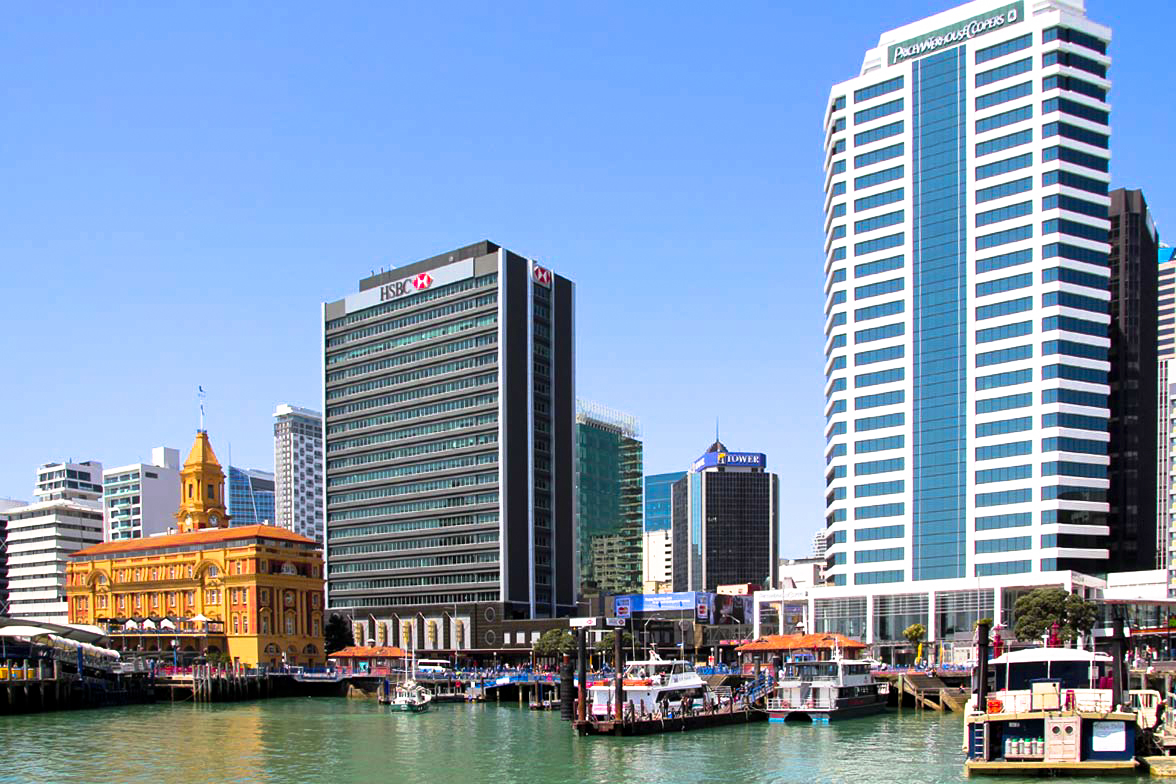 Auckland Downtown Waterfront